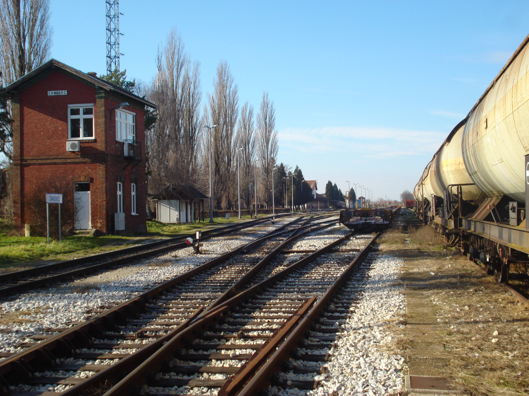 Čakovec railway station, Medjimurje County, northern Croatia - east part